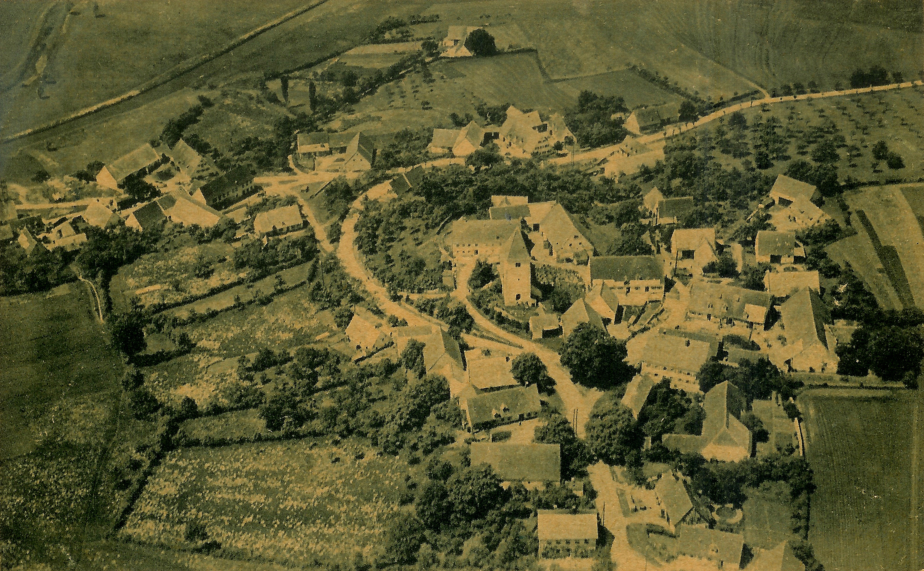 Luftaufnahme von Gundelsheim an der Altmühl um das Jahr 1920. Aufgenommen von einem Heißluftballon aus.